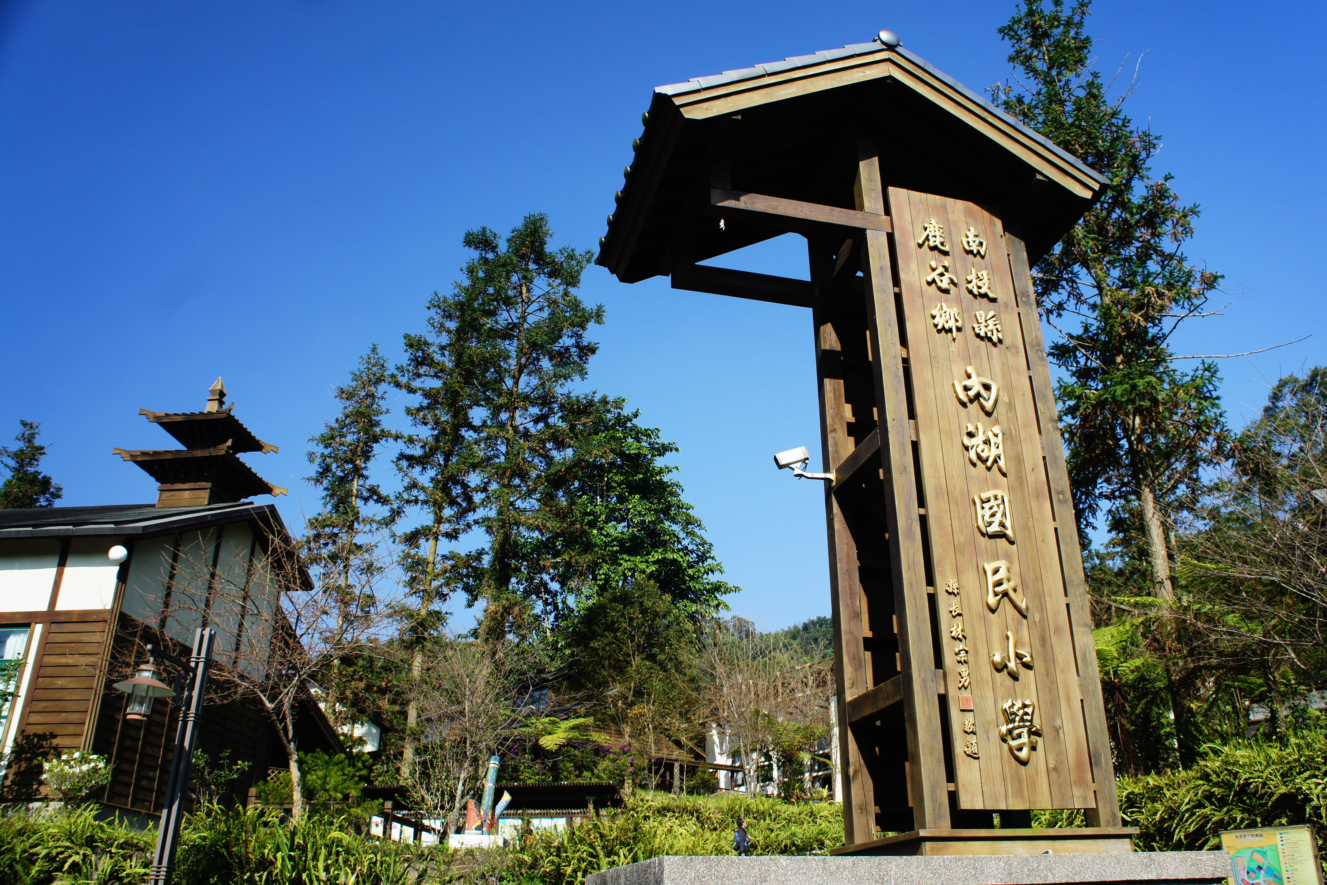 Nei Hu Elementary School, 51 Xingchan Road, Lugu Township, Nantou County, Taiwan.